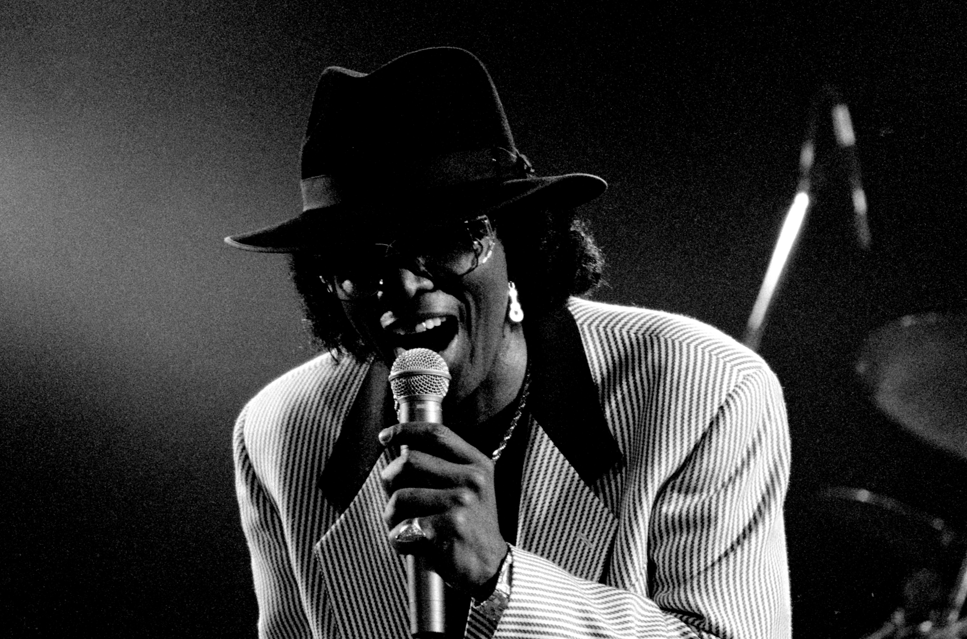 Johnny Guitar Watson Jazztage Leverkusen, 1996 Minolta XD-7, Kodak T-MAX 3200